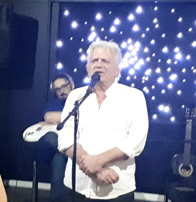 Bulgarian poet and musician Ivaylo Dimanov on a literature evening at club "Journalist" in Sofia, 20.08.2019